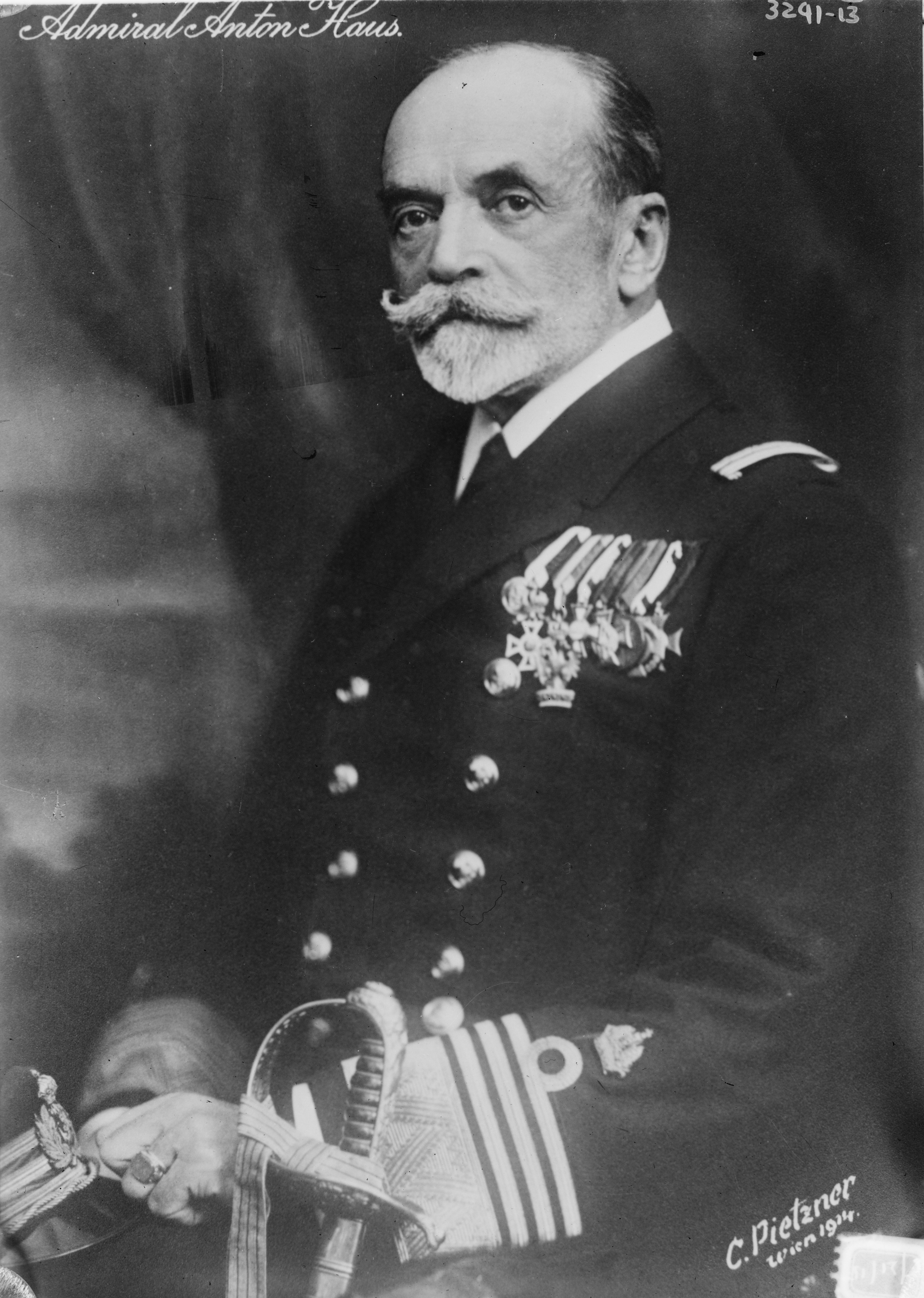 Anton Johann Haus (1851-1917), Austrian admiral